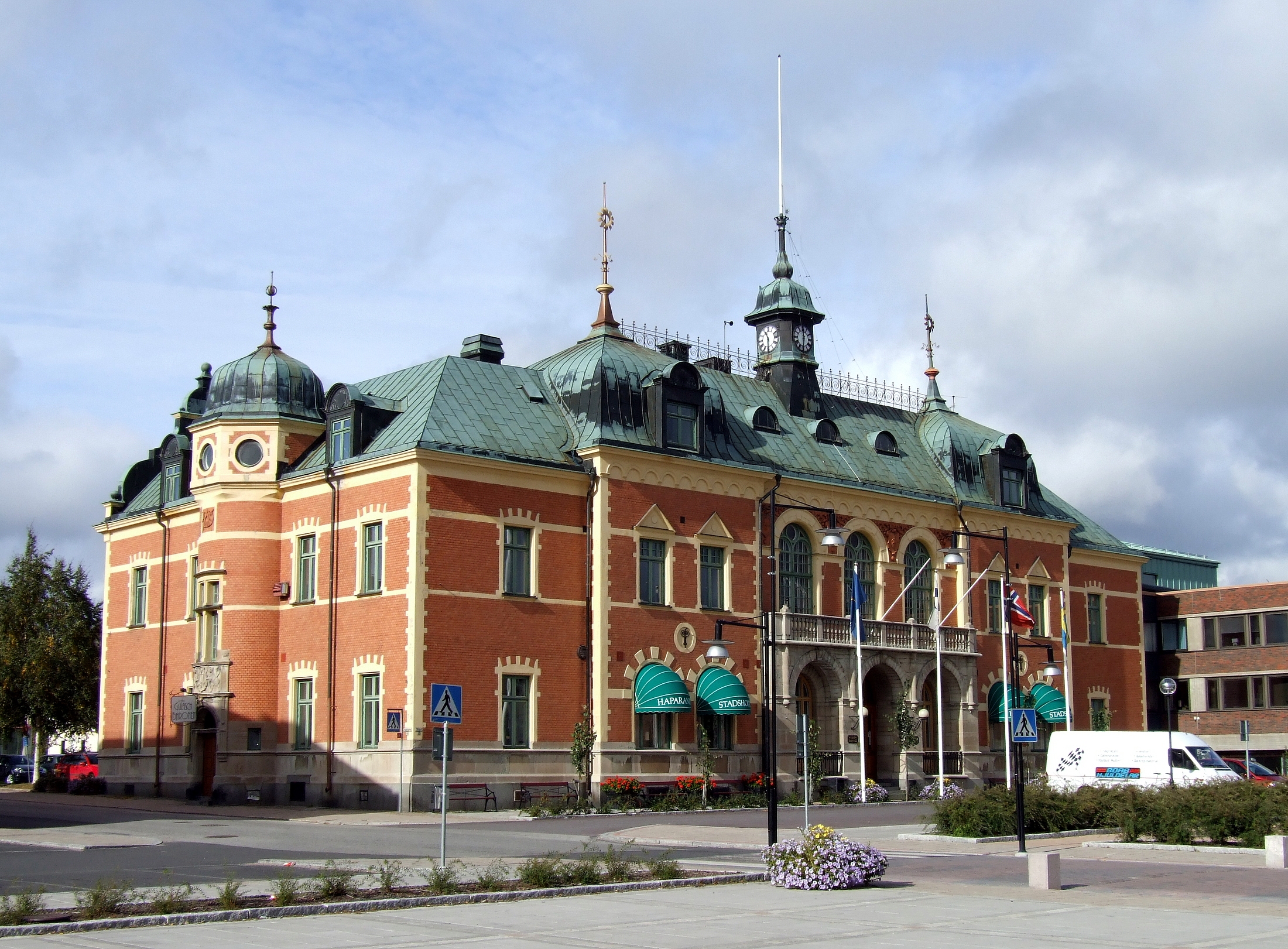 The Haparanda Stadshotell was designed by Swedish architects Fritz Ullrich ja Eduard Hallqvist and it was completed in December 1900.